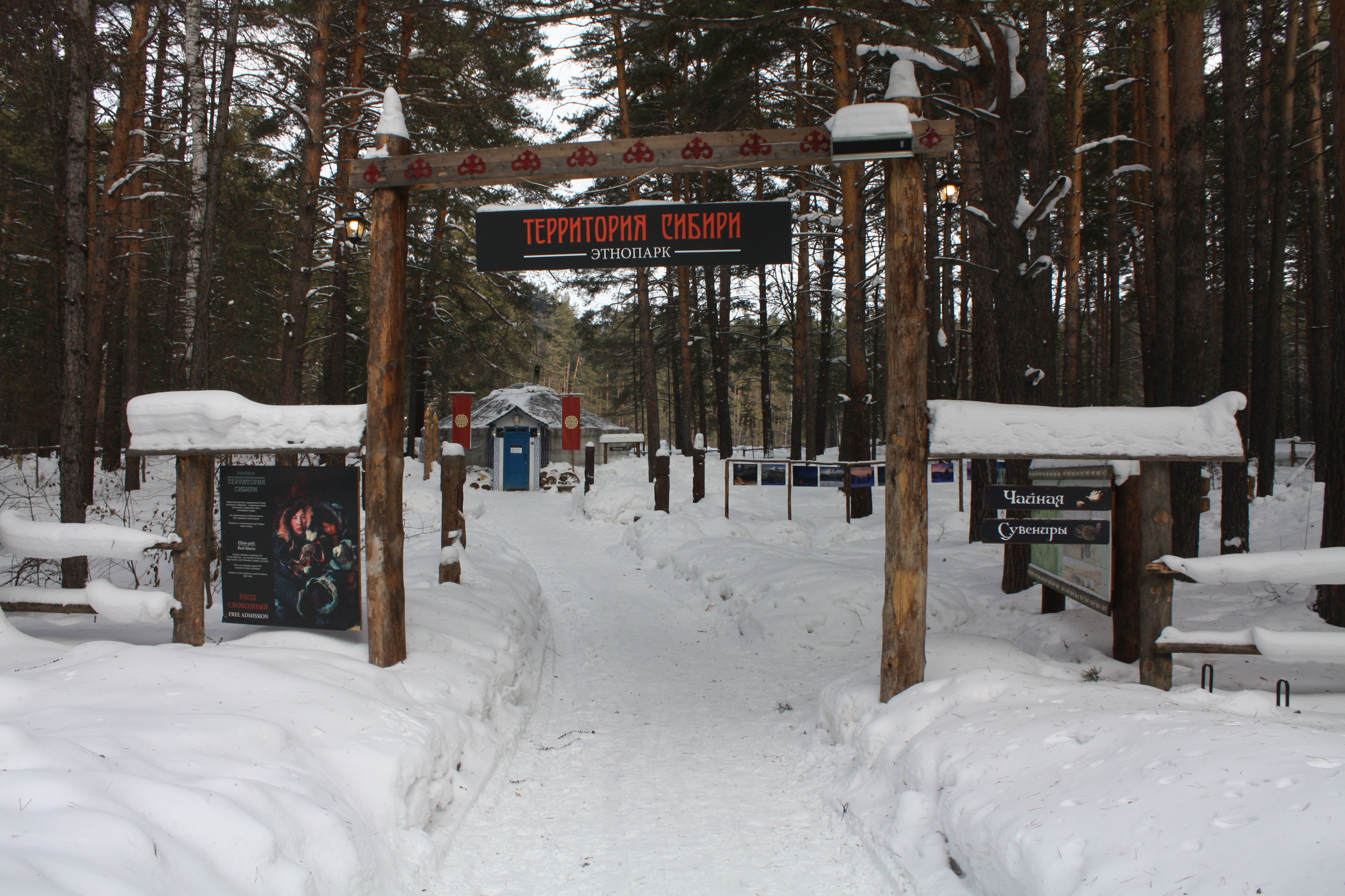 Zayeltsovsky Park, Zayeltsovsky City District, Novosibirsk.